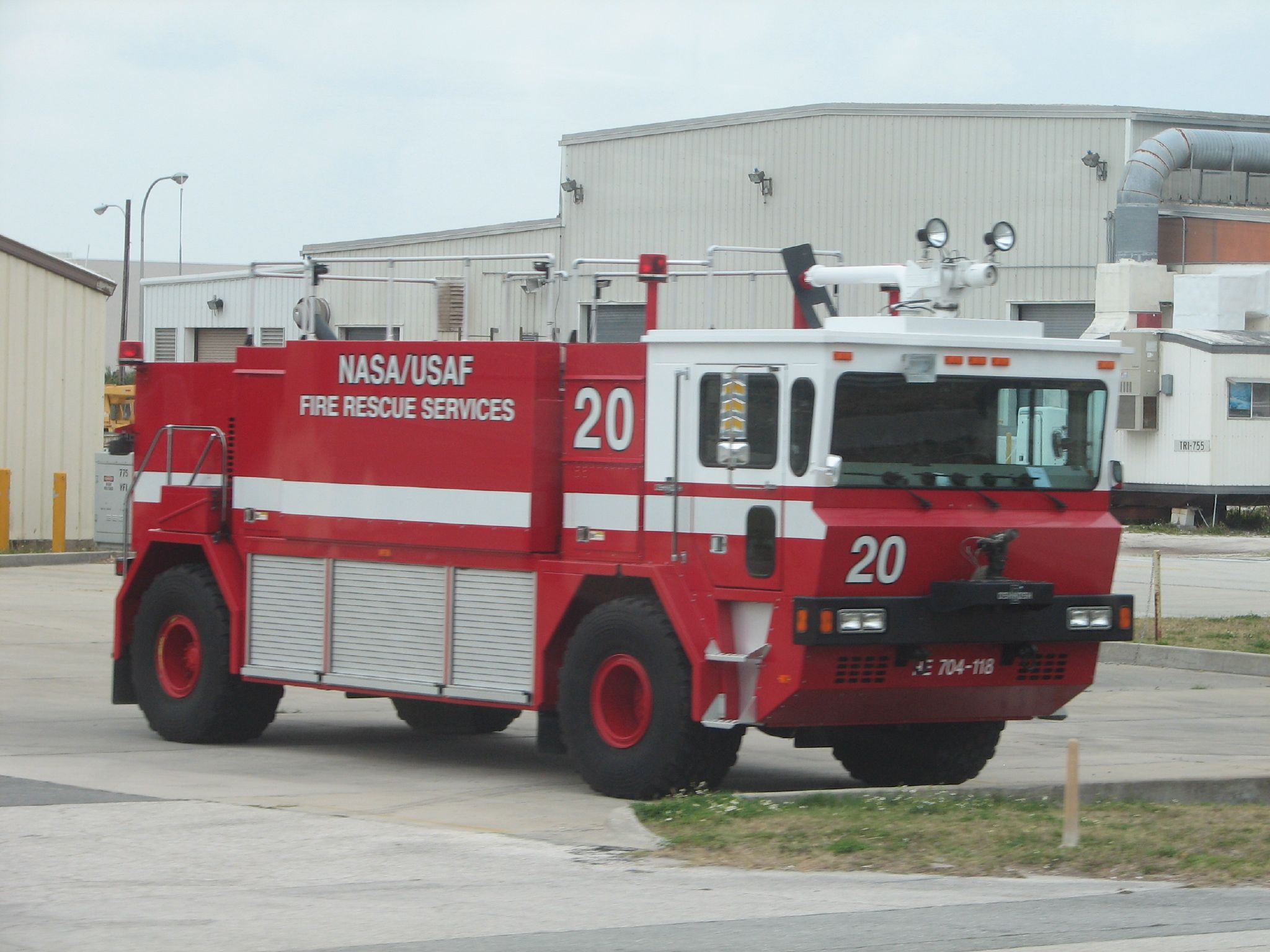 An Oshkosh airport tender at Kennedy Space Center.